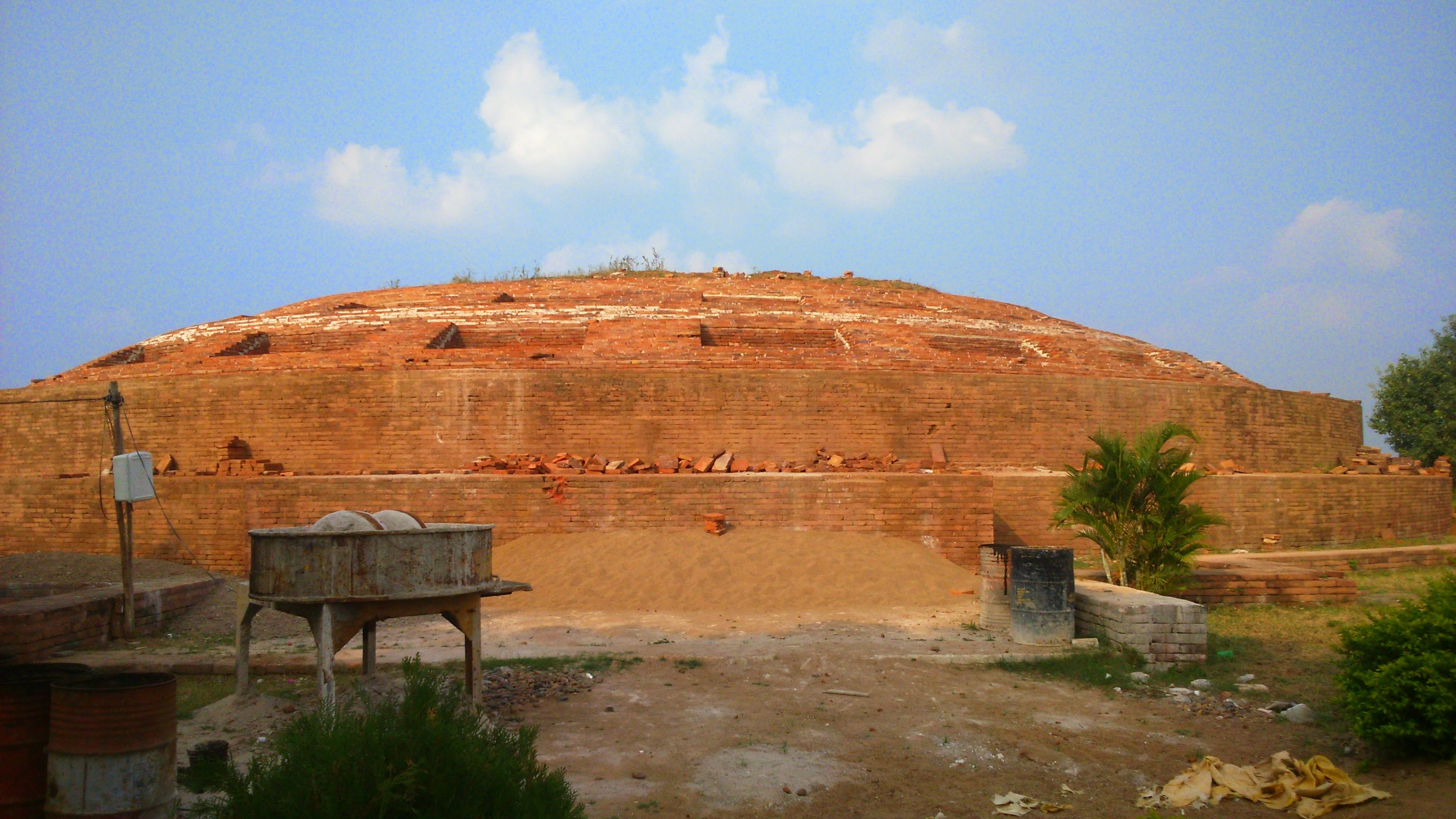 One of the famous Boudda Sthupam in Khammam Dist. Nelkondaplly Mandal, Mujjugudem Vilalge..